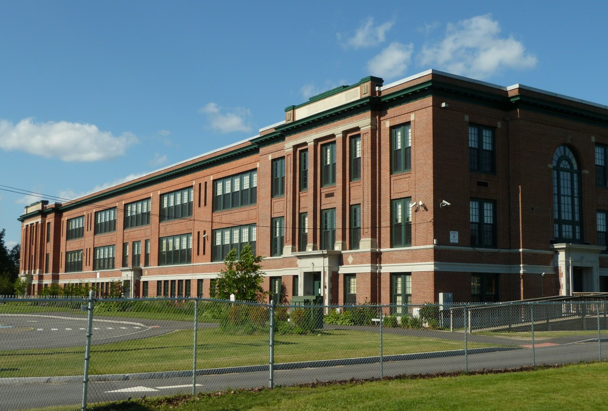 Mahoney Middle School in South Portland, Maine.